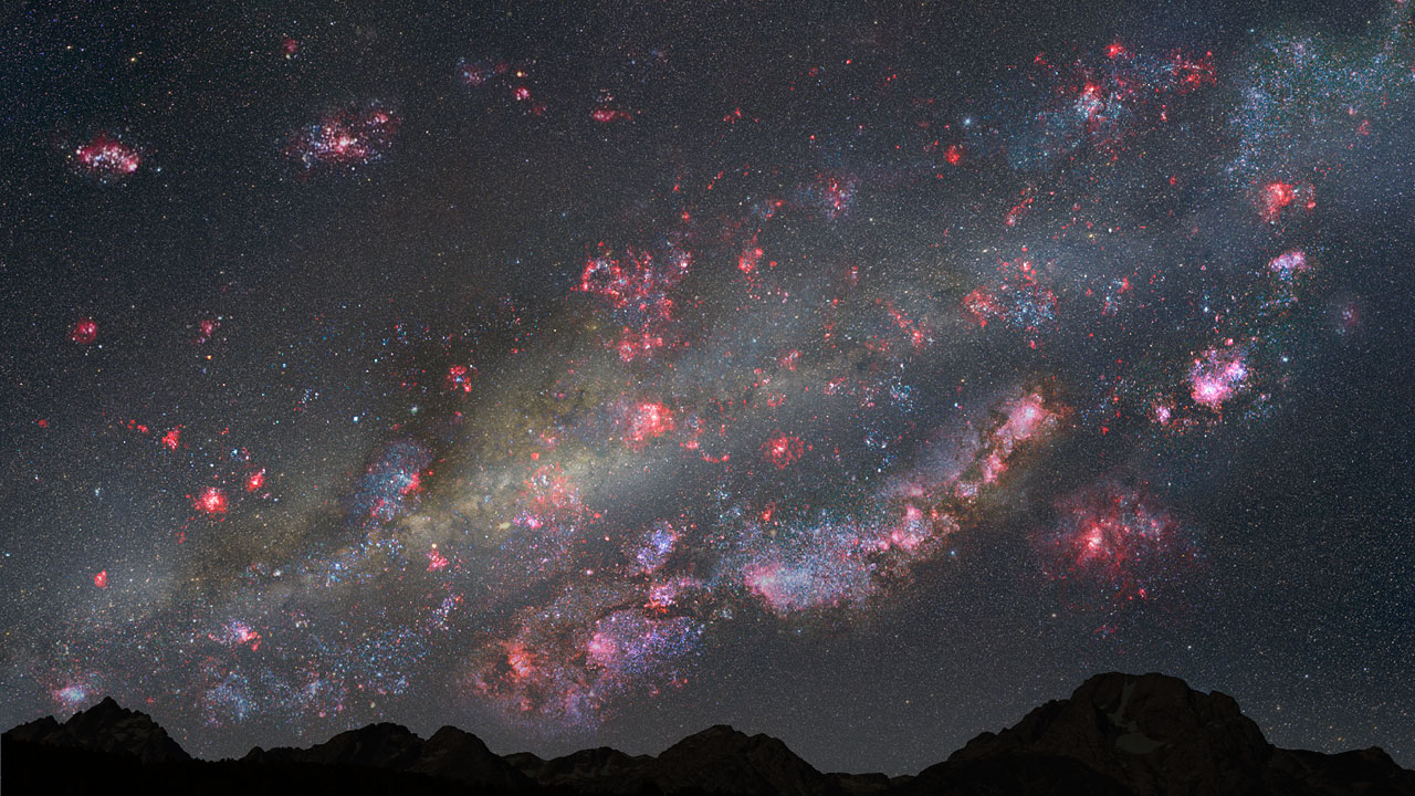 This illustration depicts a view of the night sky from a hypothetical planet within the youthful Milky Way galaxy 10 billion years ago. The heavens are ablaze with a firestorm of star birth; glowing pink clouds of hydrogen gas harbour countless newborn stars, and the bluish-white hue of young star clusters litter the landscape. The star birth rate is 30 times higher than it is in the Milky Way today. The Sun, however, is not among these fledgling stars — it will not be born for another 5 billion years. Links: NASA press release The growth of Milky Way-like galaxies over time Hubble galaxy at redshift z = 0.26 Hubble galaxy at redshift z = 0.65 Hubble galaxy at redshift z = 1.3 Hubble galaxy at redshift z = 2.0 Hubble galaxy at redshift z = 2.4 Hubble galaxy at redshift z = 2.8